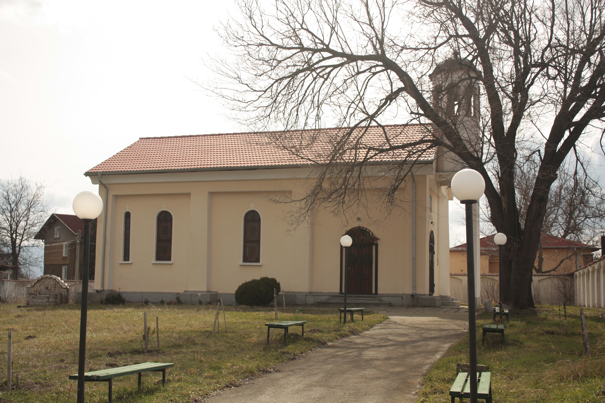 The Holy Spirit Orthodox church in Prolesha